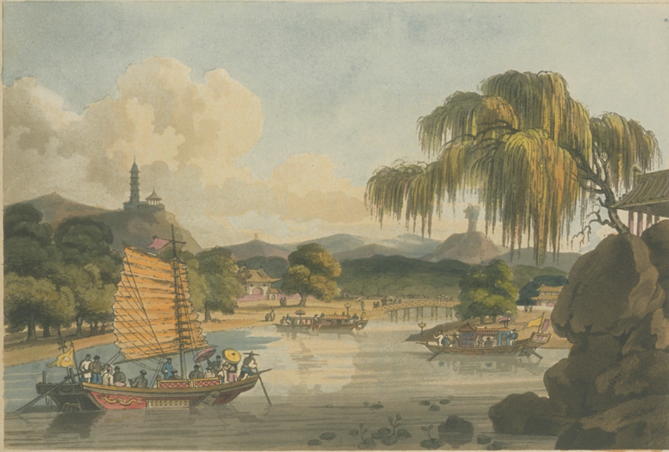 Drawing of east view